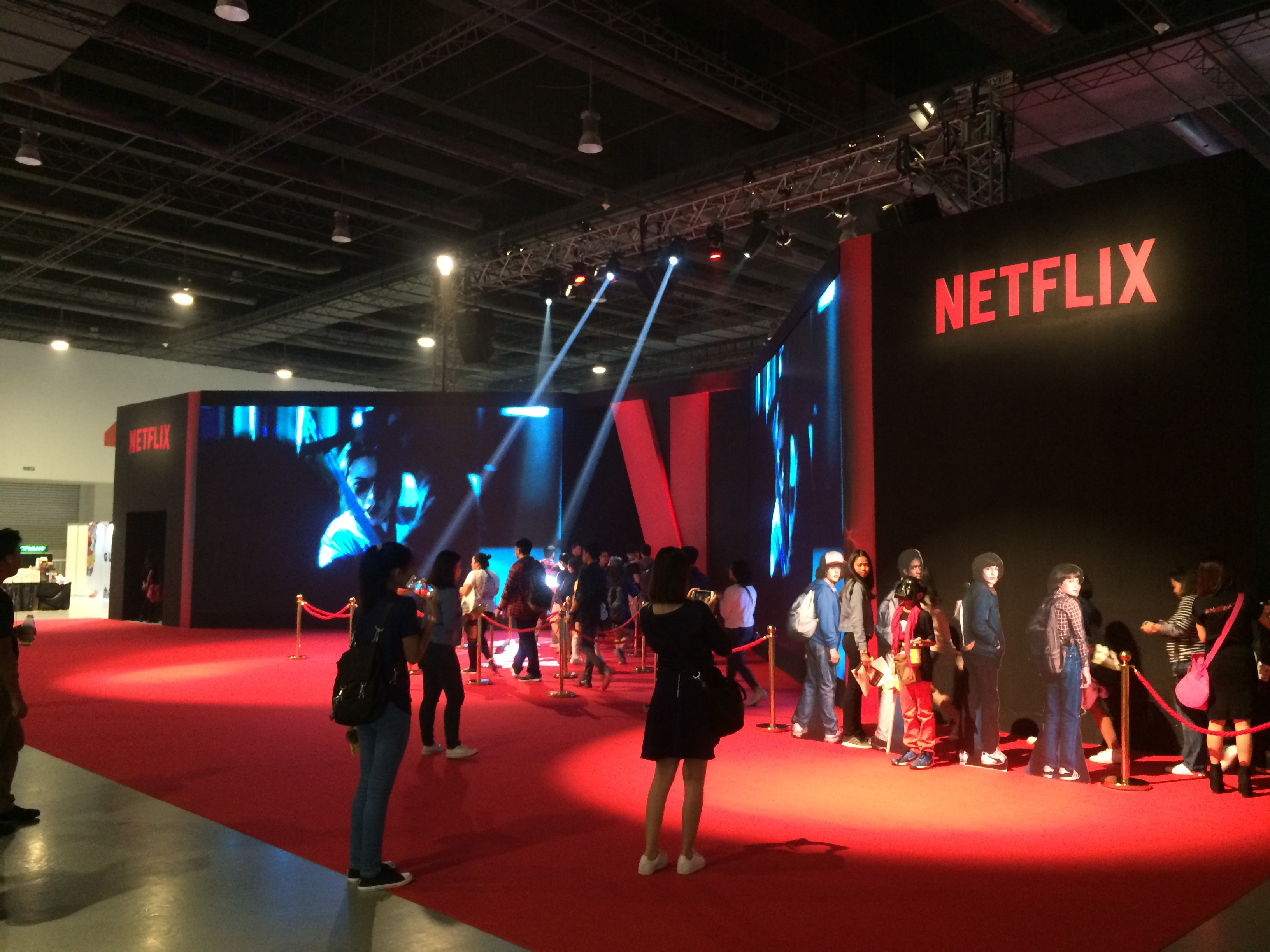 The Netflix Booth During Asia Pop Comicon 2017